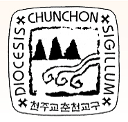 Logo of diocese of Ch'unch'on, Corea.